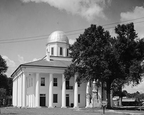 Clinton Courthouse, Saint Helena Street, Clinton (East Feliciana Parish, Louisiana) (cropped)